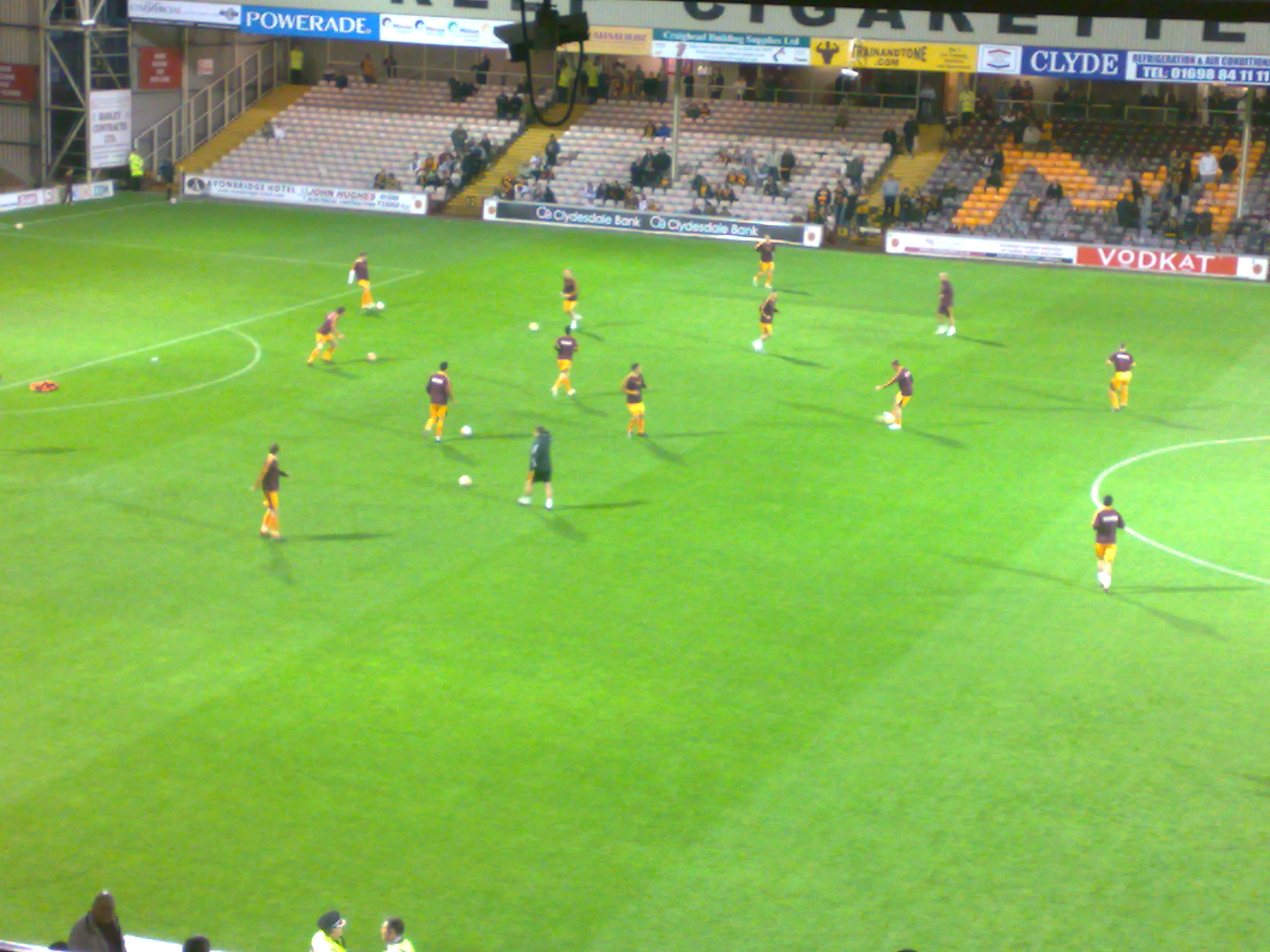 The Motherwell F.C. squad training before the Co-Operative Insurance cup match against Hamilton Academical F.C.